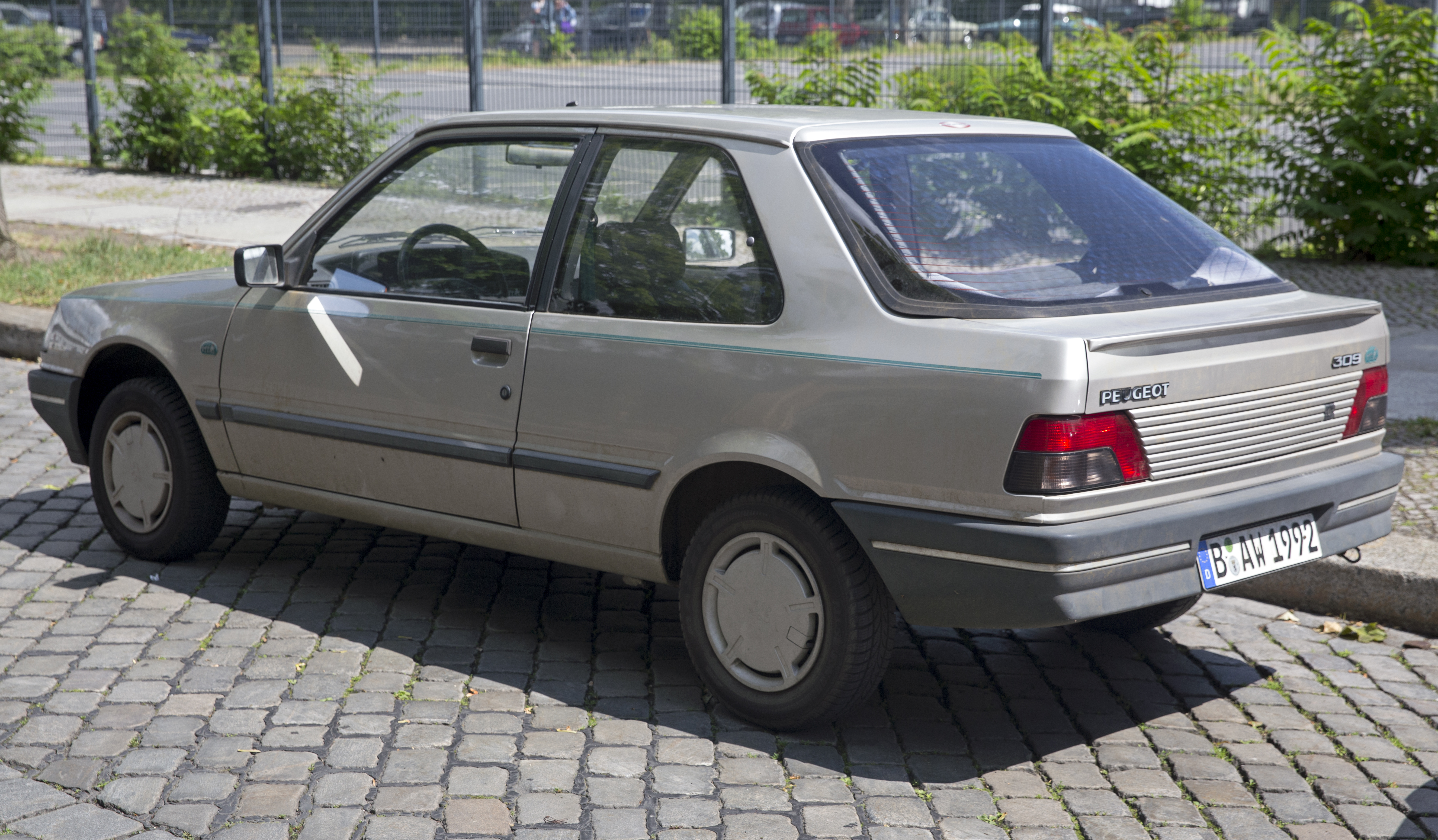 A 1992 Peugeot 309 Vital 1.4 in Berlin.